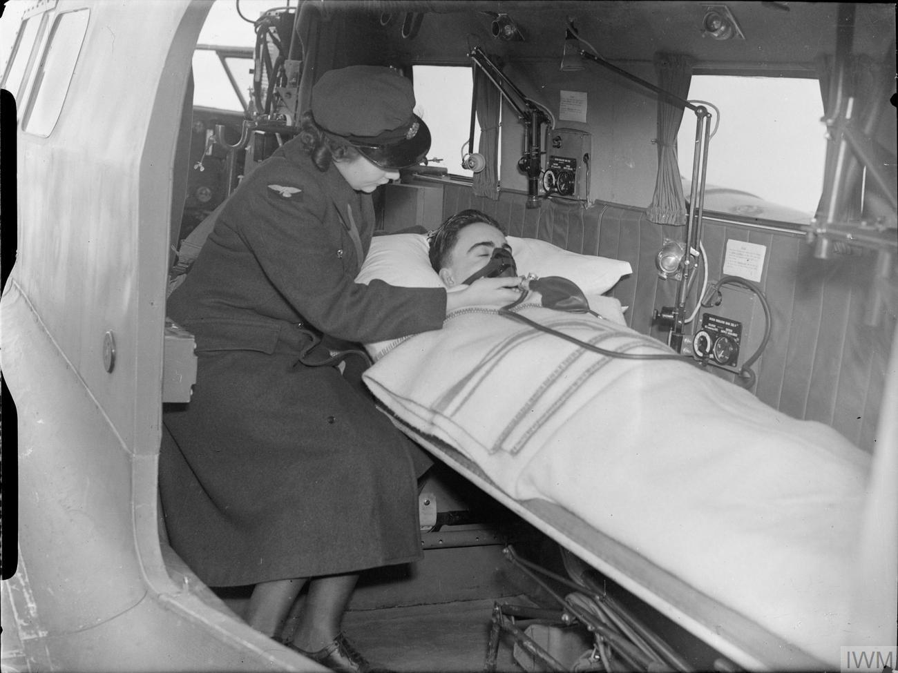 Royal Air Force Medical Services, 1939-1945. Oxygen being administered to a patient on board an Airspeed Oxford of the Air Ambulance Unit, based at Hendon, Middlesex.